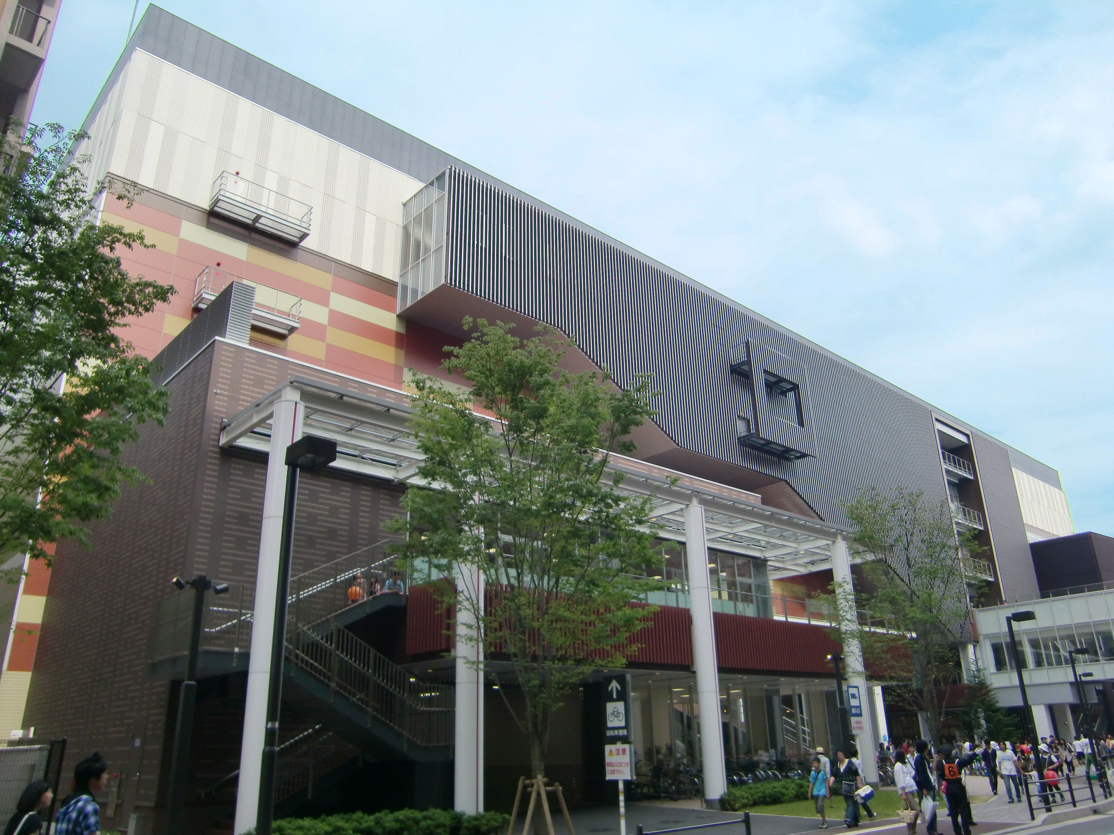 AEON MALL KYOTO Kaede-kan building, 1 Nishi-kujo Toriiguchi-cho Minami-ku Kyoto-City Kyoto JAPAN.